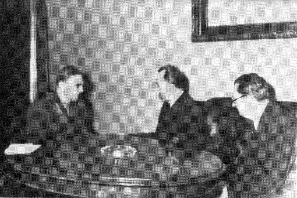 Ante Pavelić, Karl Murgaš and Mladen Lorković in Zagreb